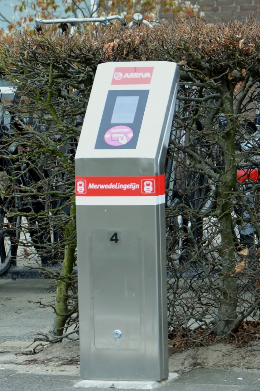 OV-Chipcard scanner from Arriva on the MerwedeLingelijn, The Netherlands